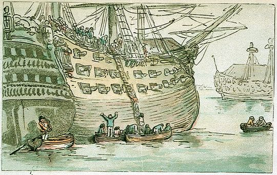 Going on board the Hector of 74 guns, lying in Portsmouth Harbour (caricature)